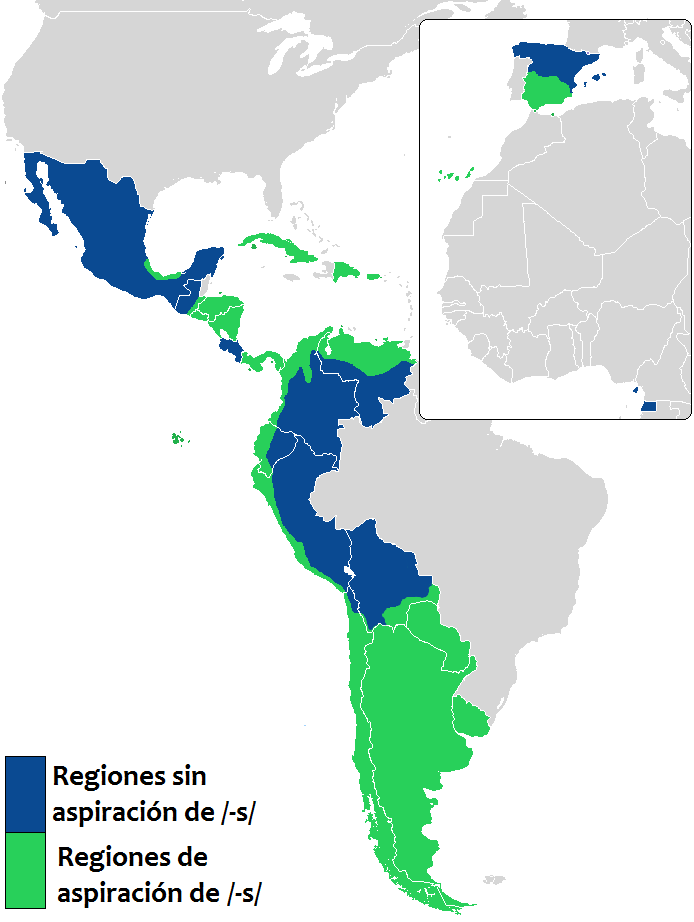 Aspiración en América